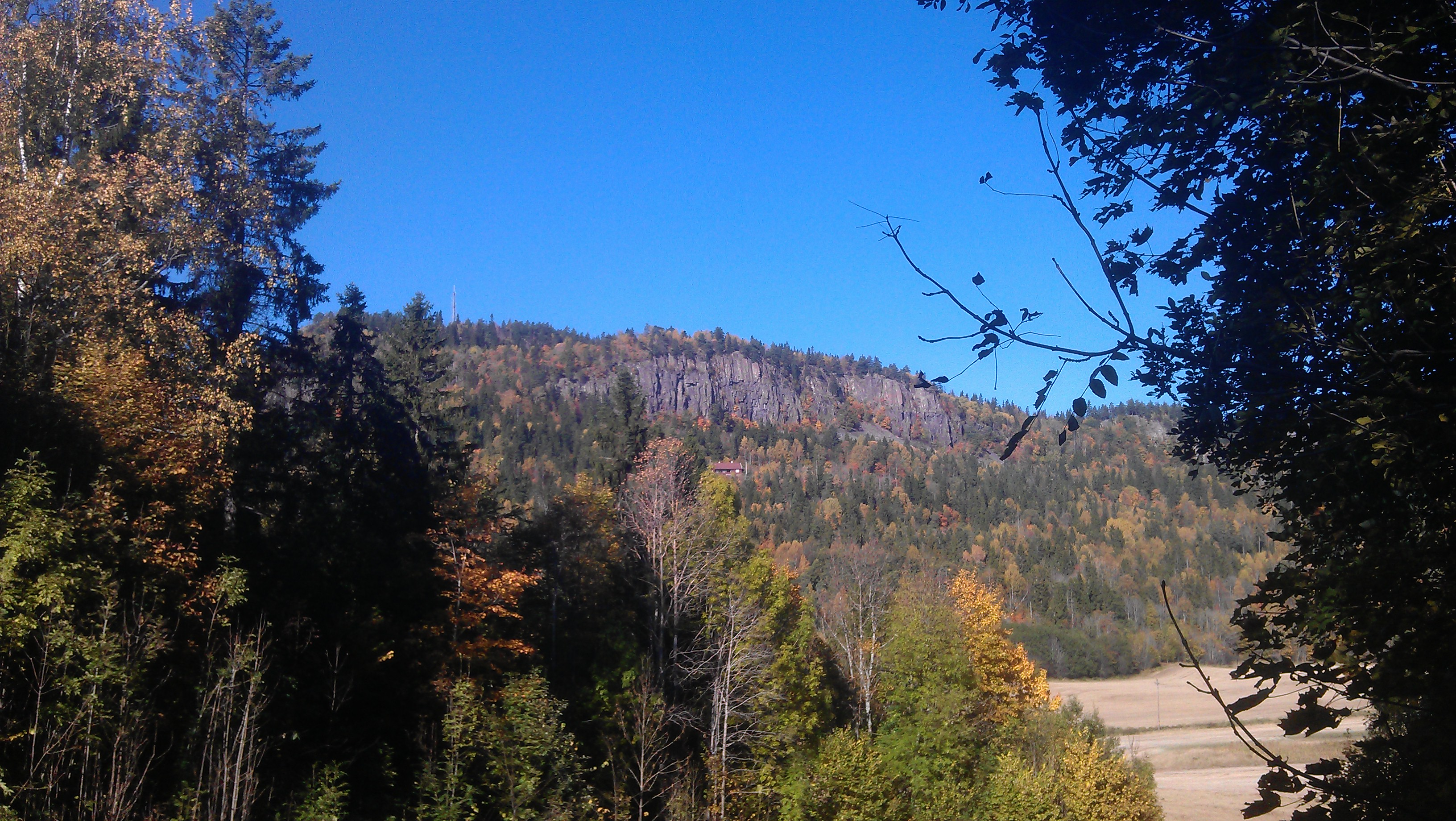 Graamagan with an ancient hill fort in Bærum , Norway